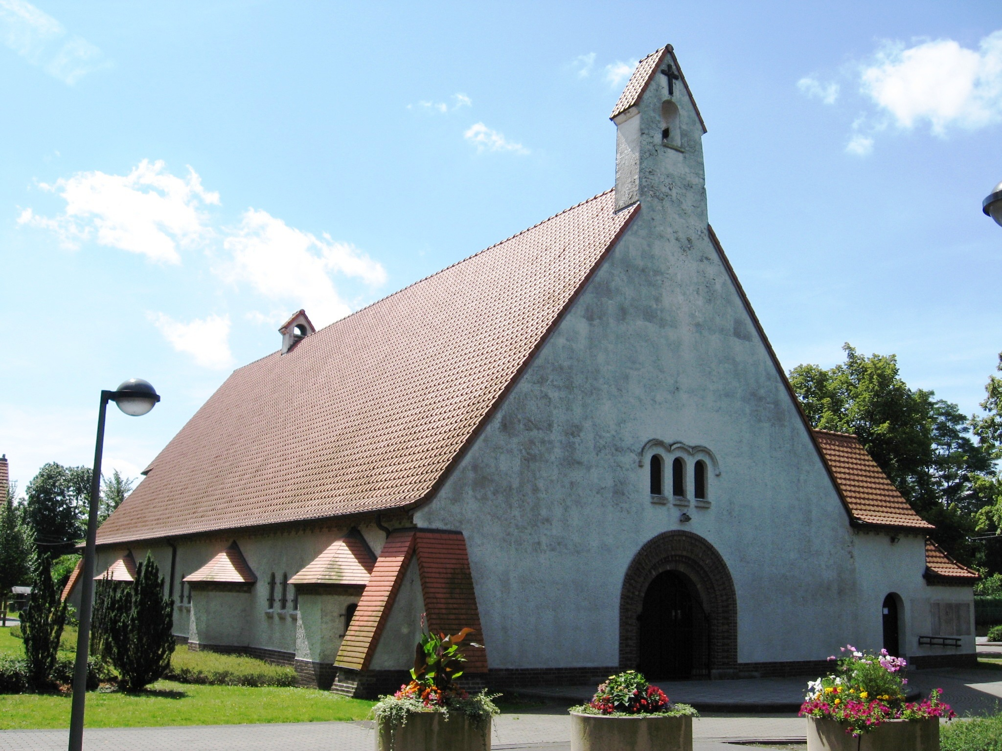 Church of Saint Eventius in Genk (Winterslag), Limburg, Belgium